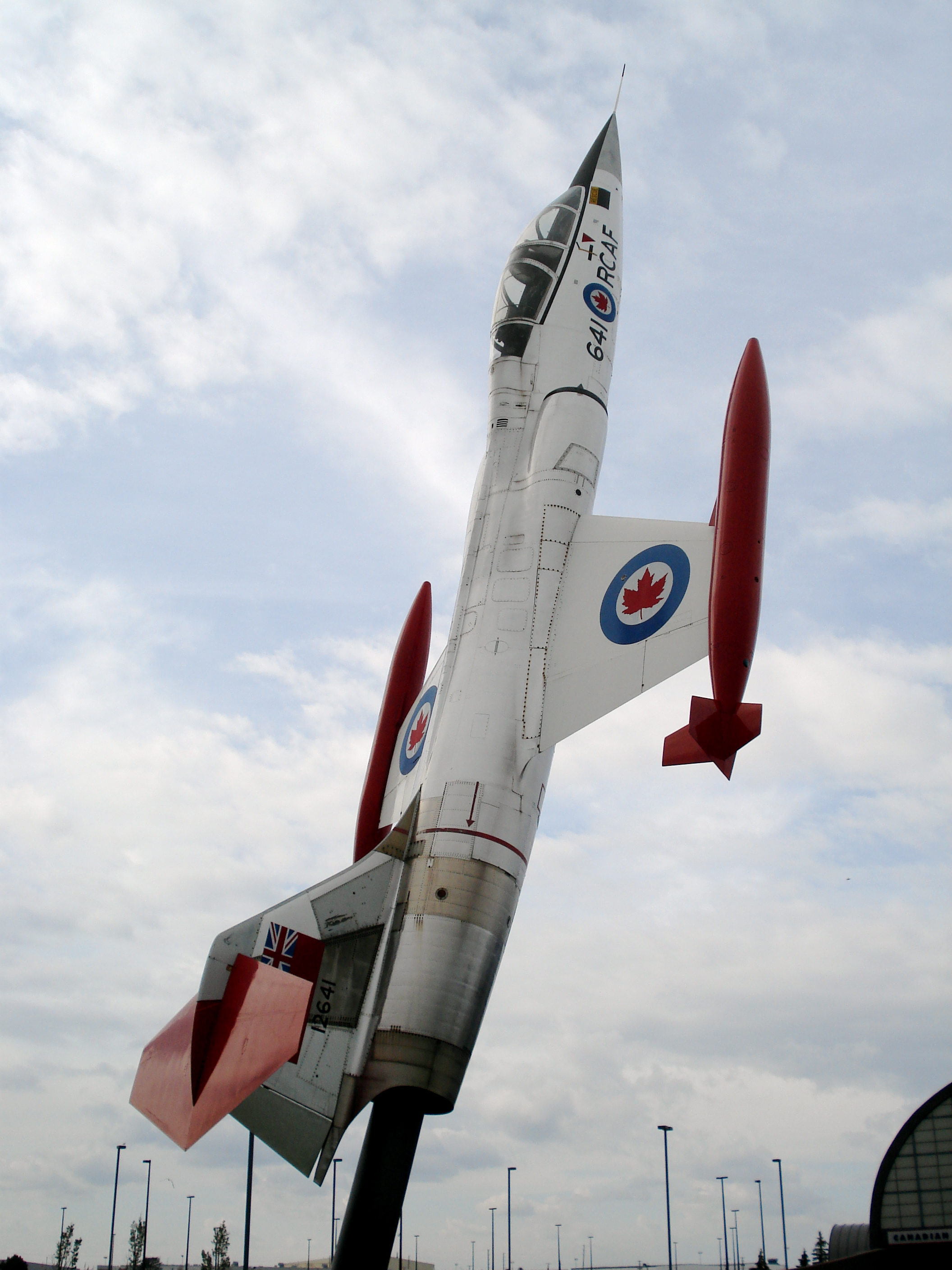 CF-104 Starfighter mounted as a monument in front of Canadian Warplane Heritage Museum. Photo taken on September 4, 2006. Source: Photo by me, User:Balcer.